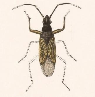 Biologia Centrali-Americana - Ligyrocoris litigiosus Cut-out from original (Biologia Centrali-Americana (8272535292).jpg) shown below